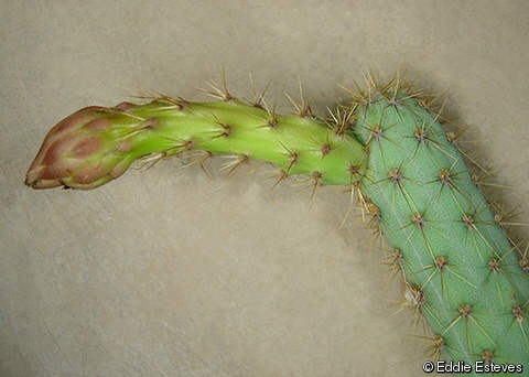 Holotype collection, Goias, Brasil